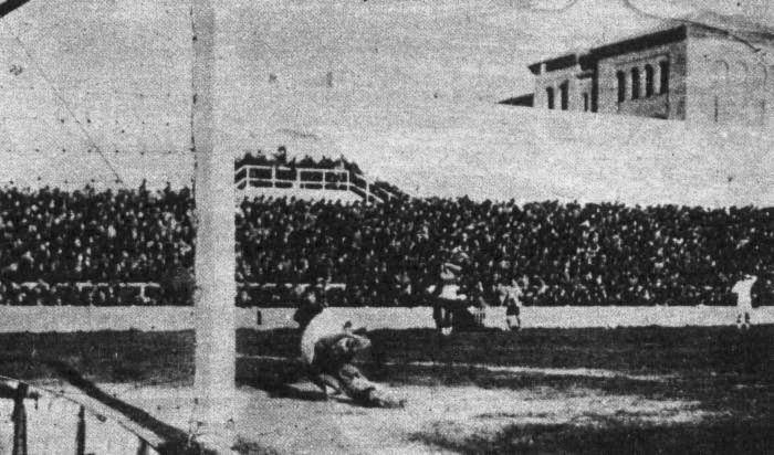 Boca Juniors scoring the goal against Real Madrid during the successful tour on Europe in 1925. This goal (the only of the match) was scored by Pozzo at 50 minutes into the game.